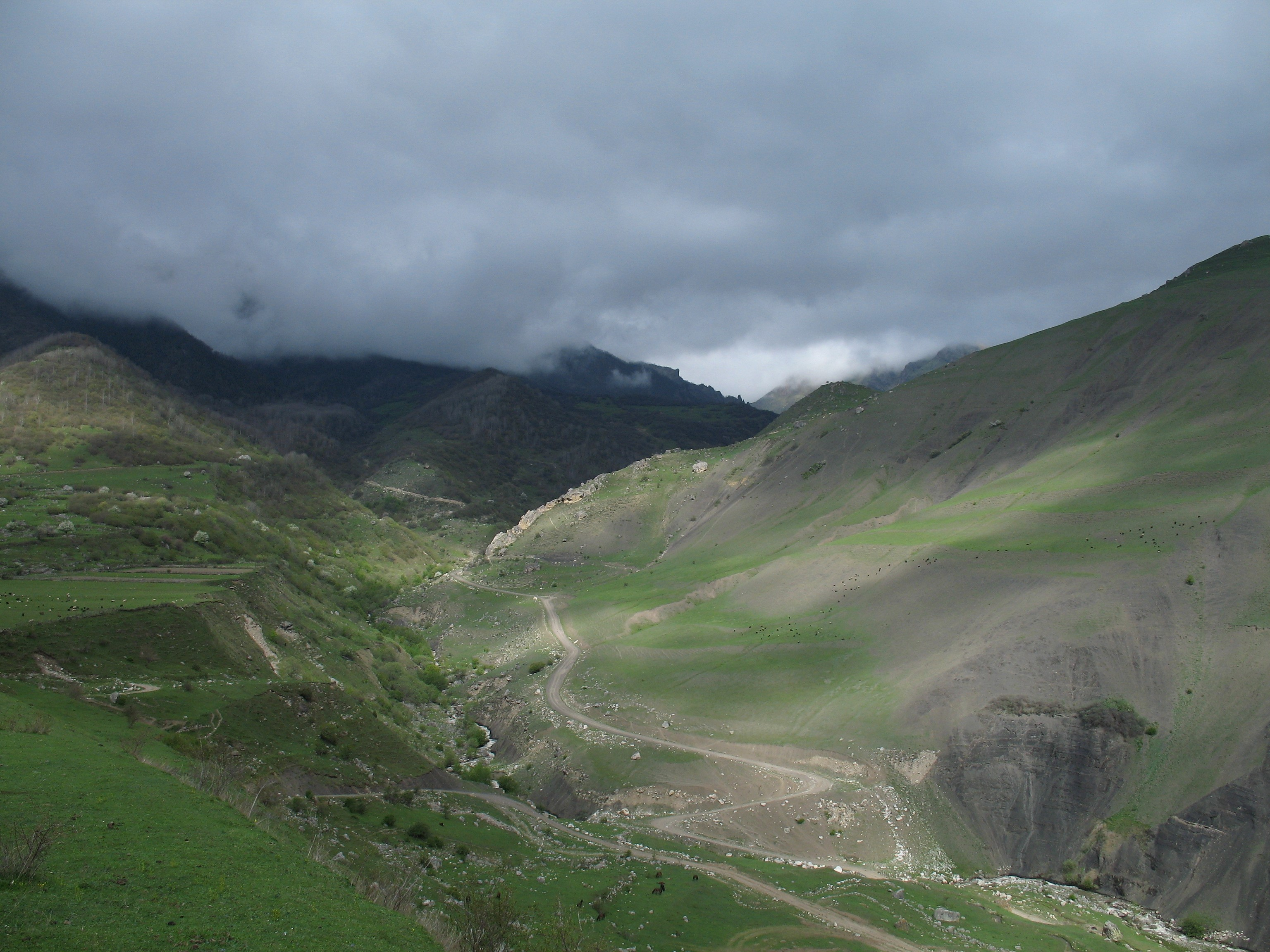 Paths in Verkhnyaya Balkaria